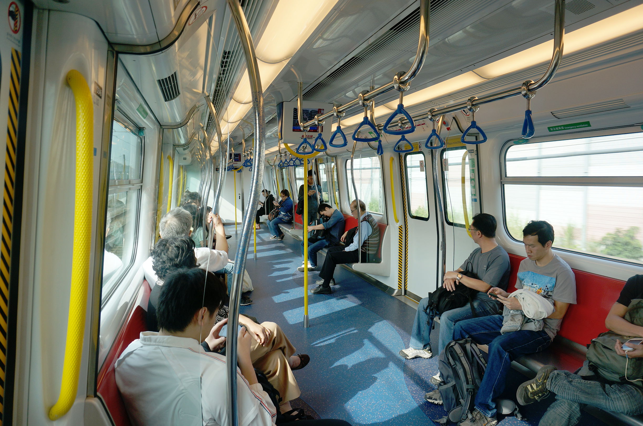 Interior of an West Rail Line SP1900 train 中文（香港）: 西鐵線SP1900,SP1950,KRS991,1151列車內部